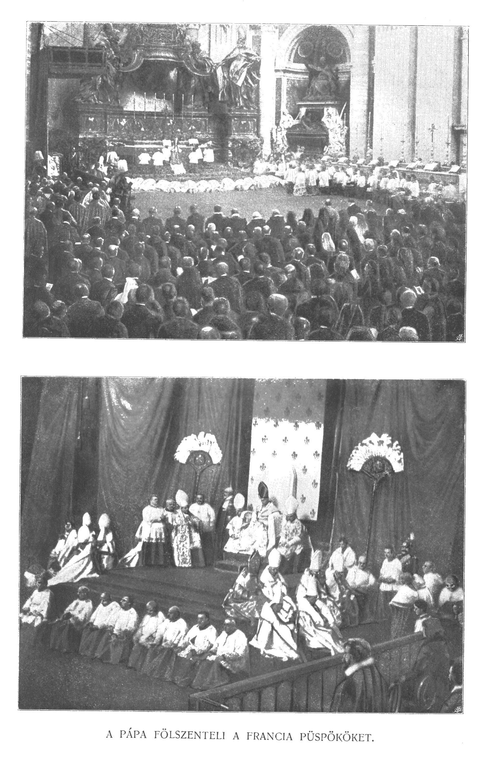 Pope Pius X consecrates 14 French bishops in 1906 in St. Peter's Basilica